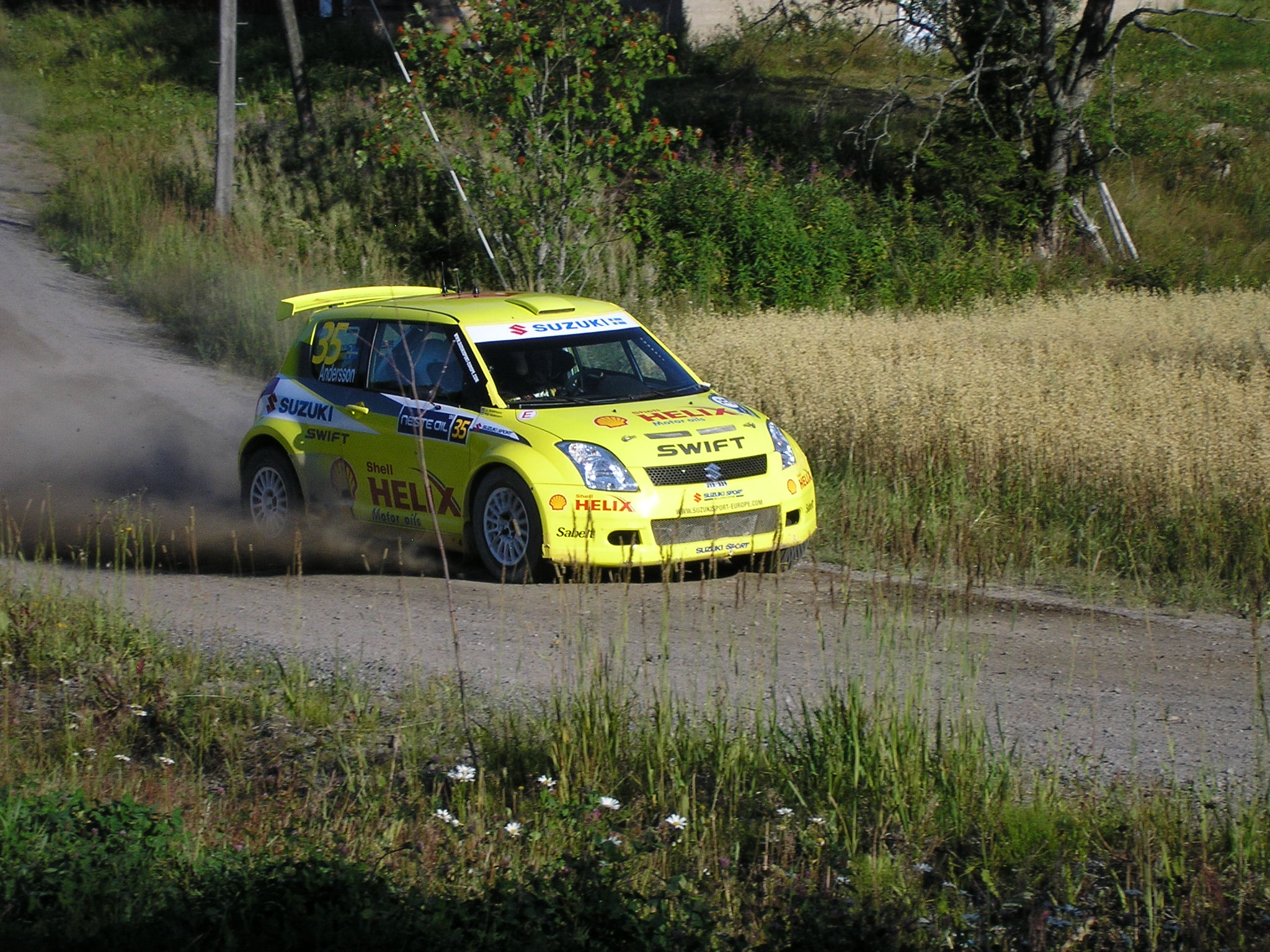 P-G Andersson at Moksi-Leustu stage during Rally Finland 2006.